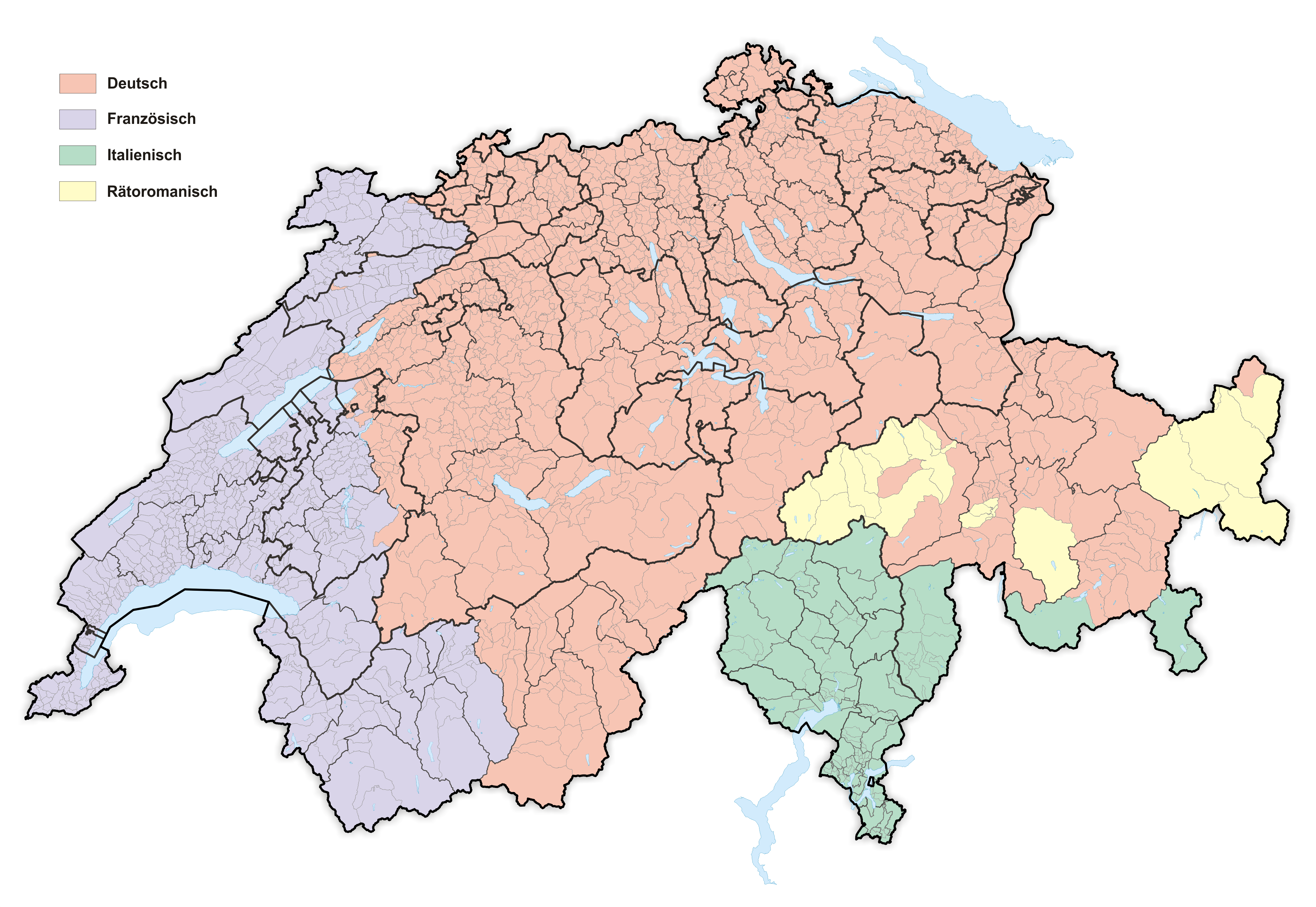 Languages in Switzerland